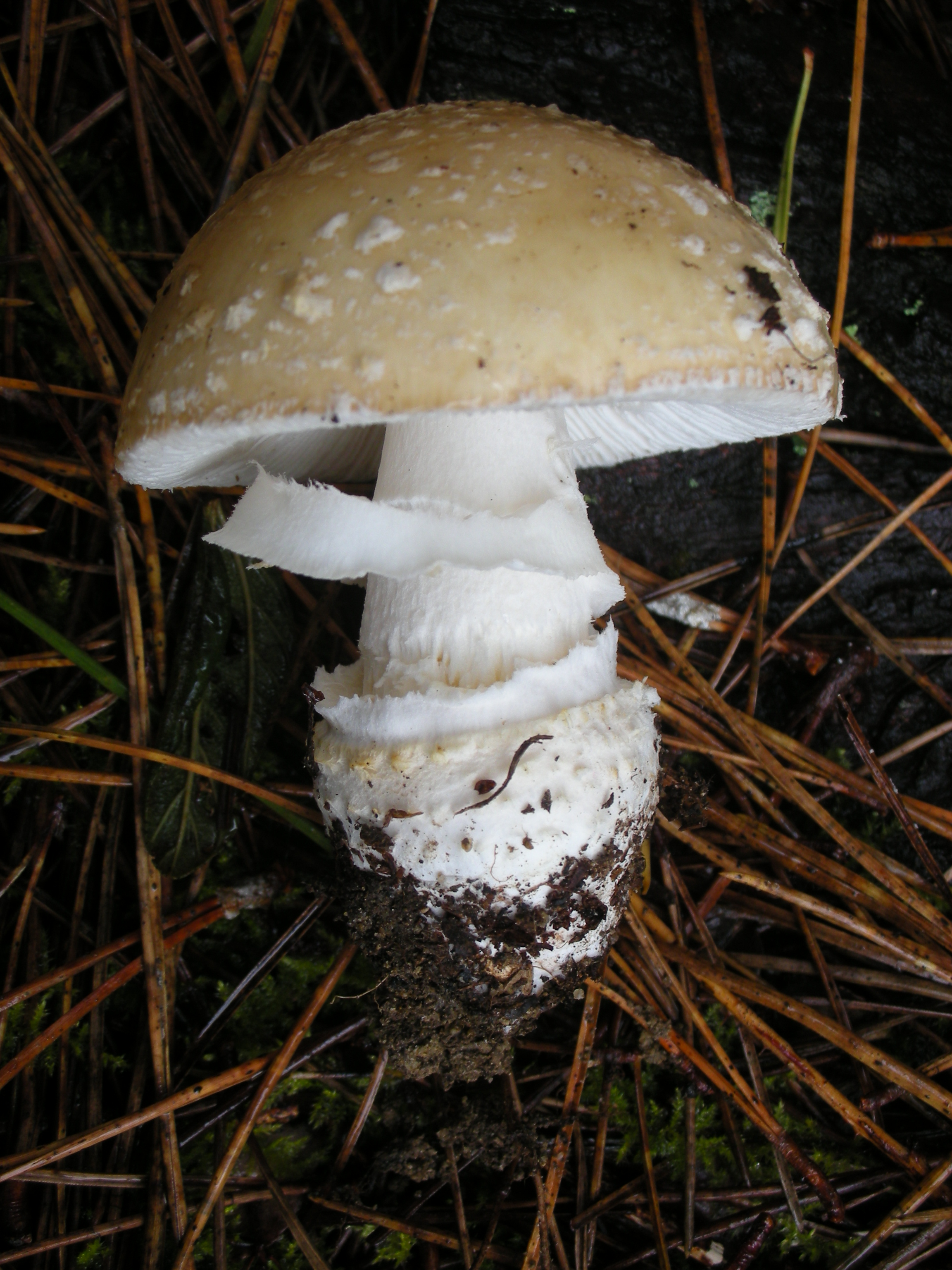 Amanita gemmata (Fr.) Bertill. (1866) Location: Point Reyes National Seashore, Marin County, California, USA Observation Notes: This specimen was growing along a trail under Bishop pine. The spores were not amyloid in Melzers and their average size was approx. 10.2 X 6.9 microns, making them too small for A. breckonii.I tried to use “Amanita gemmata group” but this time it was not accepted. For more information about this, see the observation page at Mushroom Observer.